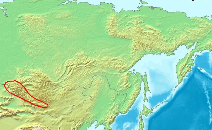 Location Altay Mountains.PNG